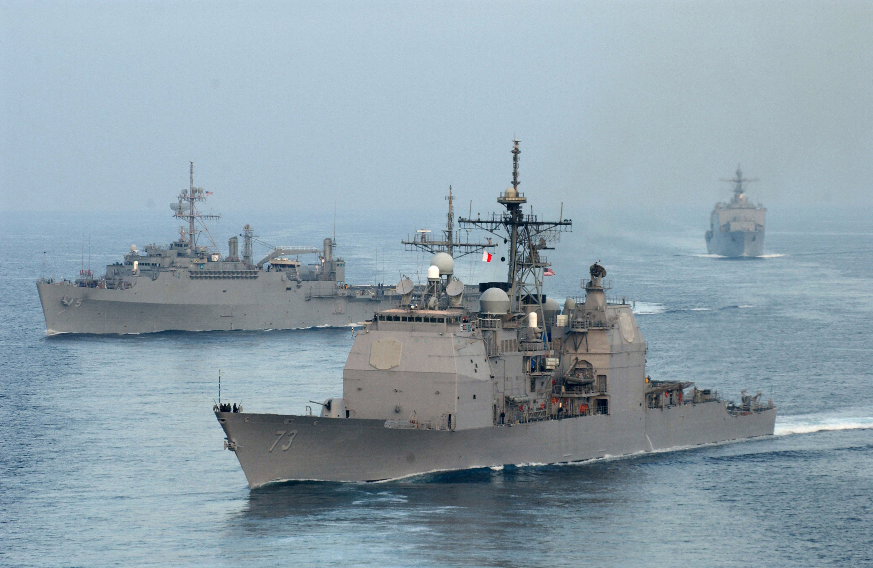 The guided missile cruiser USS Port Royal (CG 73) (foreground), amphibious transport dock USS Ogden (LPD 5) (left), and the dock landing ship USS Germantown (LSD 42) maneuver from a formation as they operate in the Pacific Ocean on Dec. 13, 2005. The ships and Expeditionary Strike Group 3 are underway off the coast of Southern California for a composite unit training exercise.